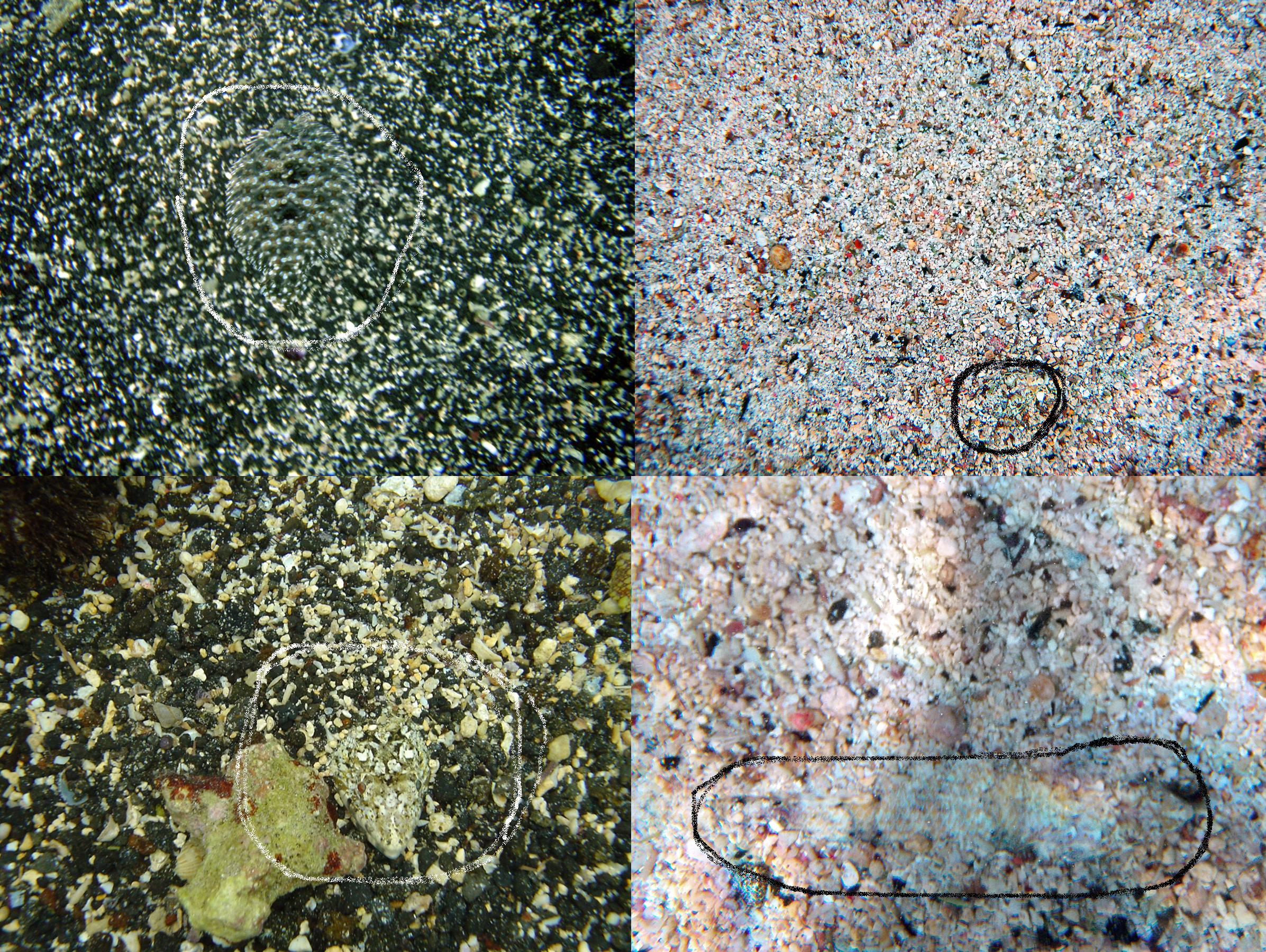 All underwater images were taken off the same beach in kona at the Big Island of Hawaii. The upper left frame was taken 1-2 feet off shore. Flowery Flounder, Bothus mancus is blended well in the black lava sand.The lower left frame was taken 10-15 feet off shore. Hawaiian Lizardfish ,"Synodus 'ulae" has no problem with camouflage in the mixed (lava and and coral/ seashell sand. Even the eyes of the fish have a different colors to better match the sand.The upper right and the lower right images were taken few hundreds feet off shore. Although the sand there still has particles of lava it mostly came from corals and seashells. Surprisingly the same Hawaiian Lizardfish, as from the left lower frame looks very well camouflaged in that white sand.